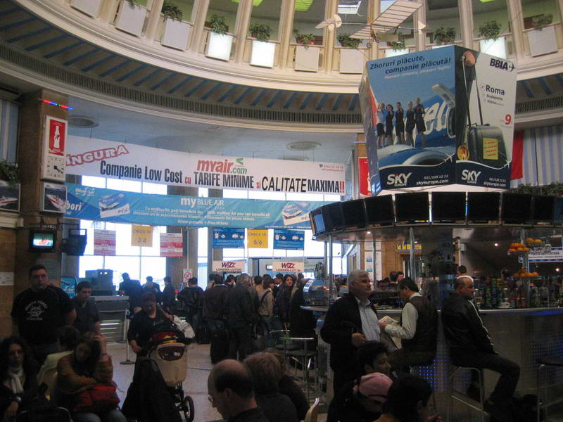 Bucharest Baneasa Airport